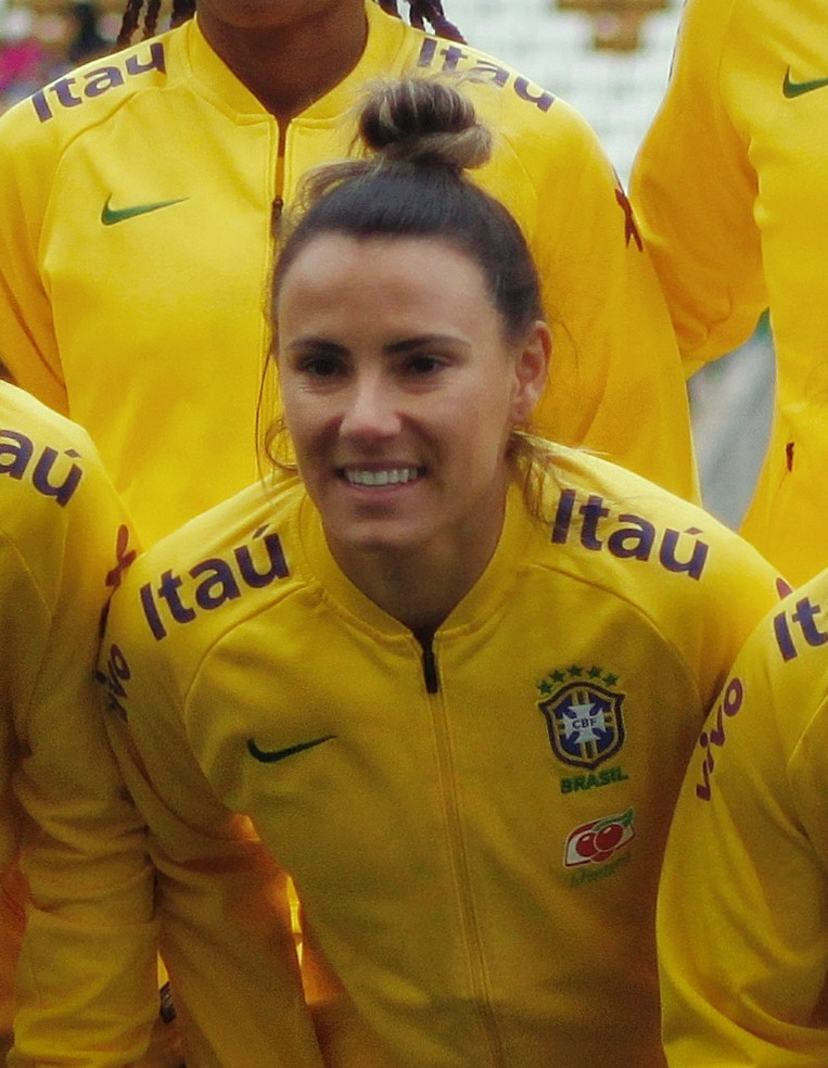 Jucinara Thaís Soares Paz playing for Brazil against Japan at the 2019 SheBelieves Cup on February 27, 2019.